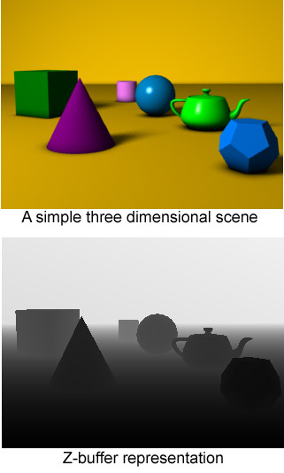 This image illustrates the Z-buffer data of a three dimensional scene.